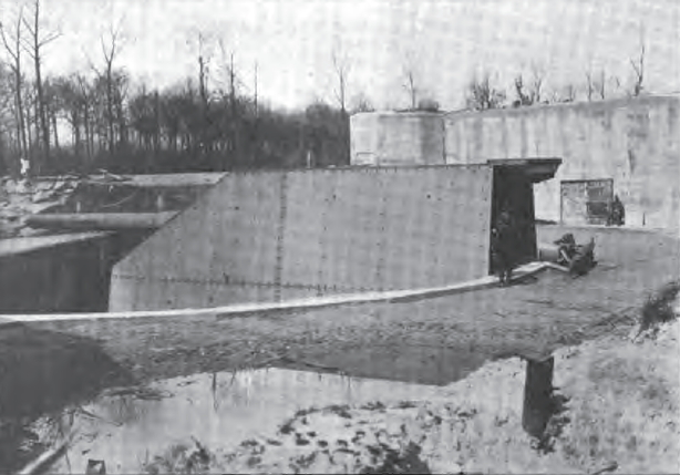 38 cm SK L/45 with armored gun shield of Batterie Pommern, Occupied Flanders, WW I. This gun was located at Clevenstraat 2 in Koekelare (Belgium). You can still see the remains and the Lange Max Museum about this gun.